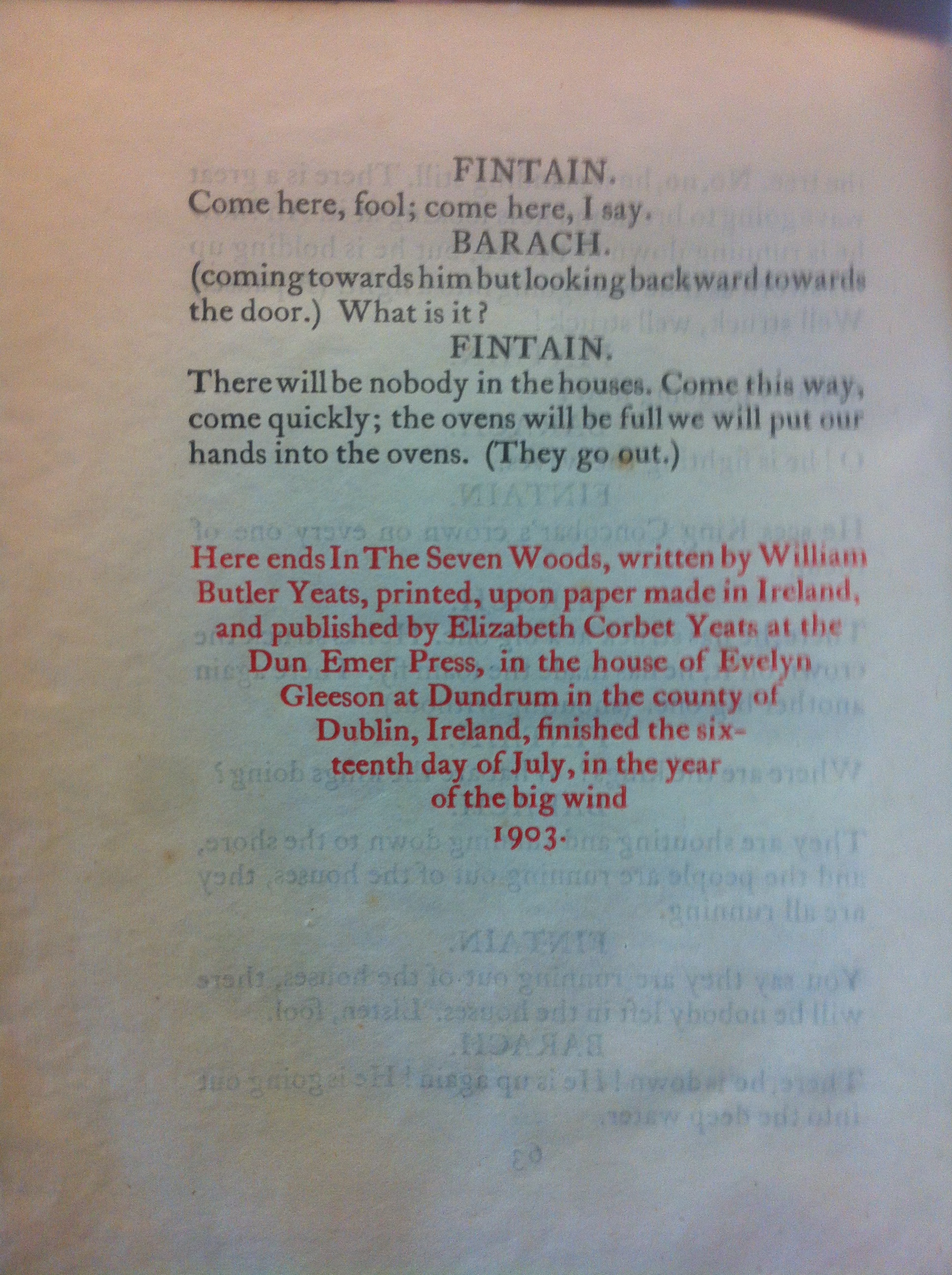 Colophon page for W. B. Yeats' In the Seven Woods Limited First Edition